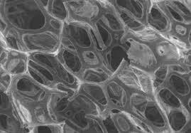 poliestireno expandido visto en microscopio